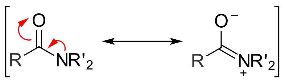 The two structures represent the major resonance forms of an amide. Both are significant contributors to the overall structure, so much so that the amide bond has substantial double-bond character.